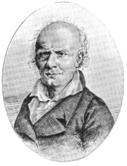 photo of architect Jean-Baptiste Rondelet from the cited book. From Google Books: Title Architectes: notices biographiques et bibliographiques avec une table des édifices et la liste chronologique des noms Author Léon Charvet Editor Léon Charvet Publisher Bernoux & Cumin, 1899 Original from the New York Public Library Digitized Apr 24, 2008 Length 436 pages